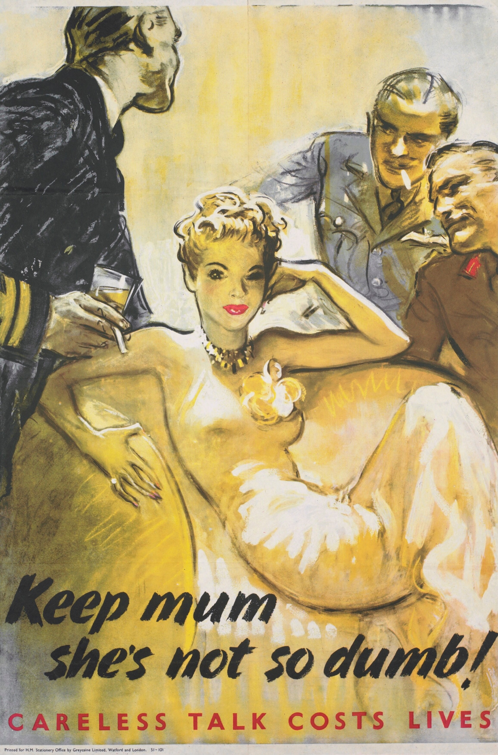 Keep Mum - She's Not so Dumb! - Careless Talk Costs Lives whole: the image occupies the whole, with the title and text integrated and placed in the lower quarter, in black and in red. image: a three-quarter length depiction of an attractive woman, reclining on a chair and looking directly out of the poster. She is surrounded by three entranced officers, representing the Army, Navy and RAF. text: Keep mum she's not so dumb! CARELESS TALK COSTS LIVES Printed for H.M. Stationery Office by Greycaine Ltd., Watford and London. 51-101